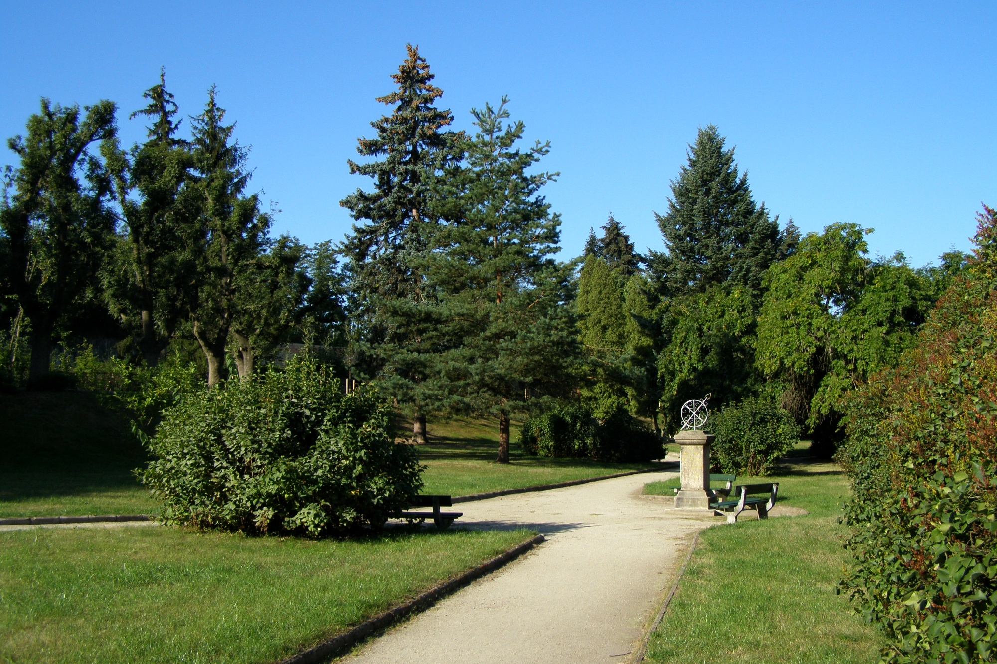 Třebíč-Horka. Tyrš' gardens - West part